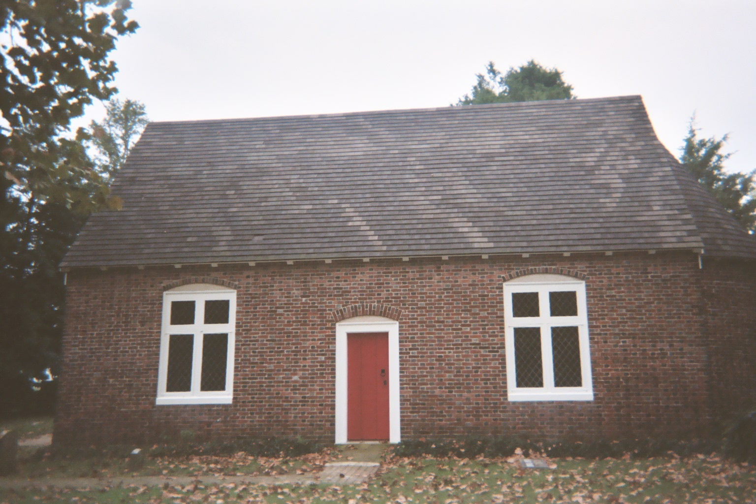 Old Trinity Church, in Cambridge, Maryland